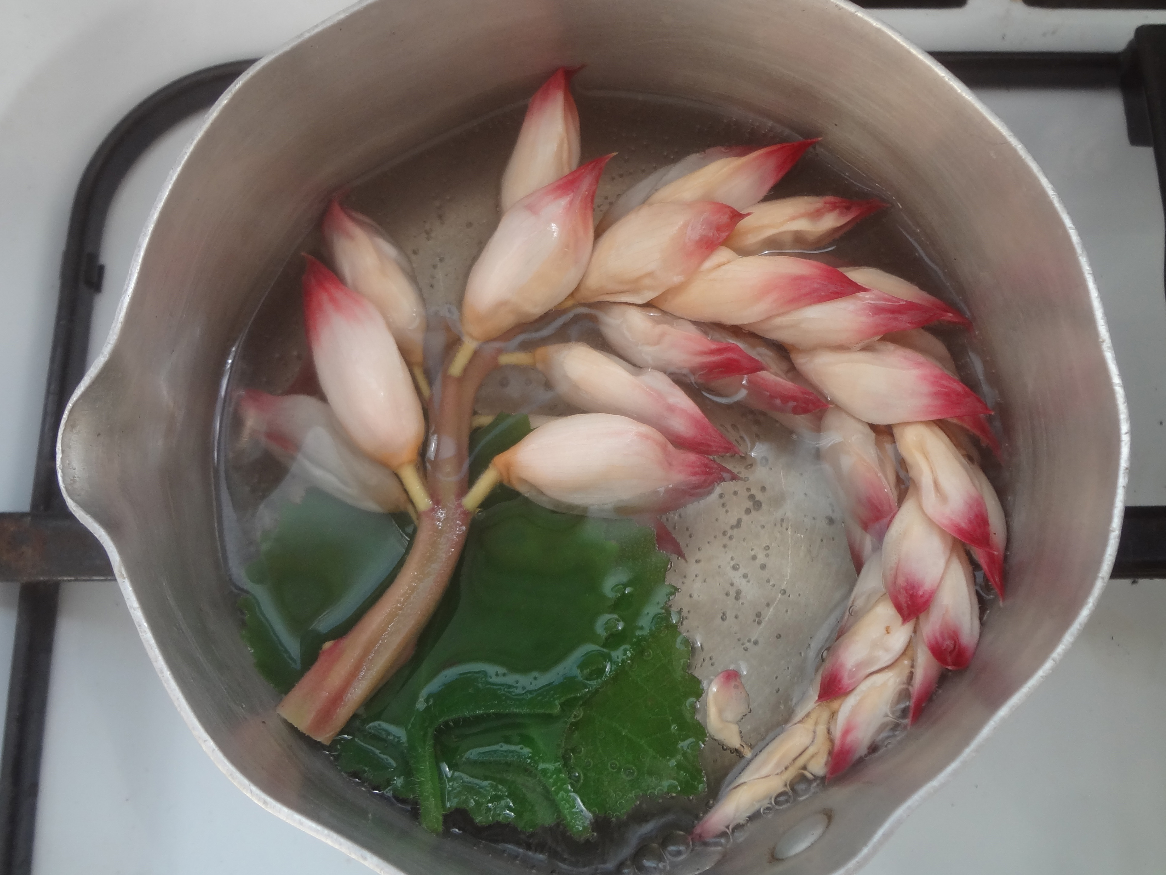 Infusion of shell ginger (Alpinia zerumbet) flowers and mint leaves.